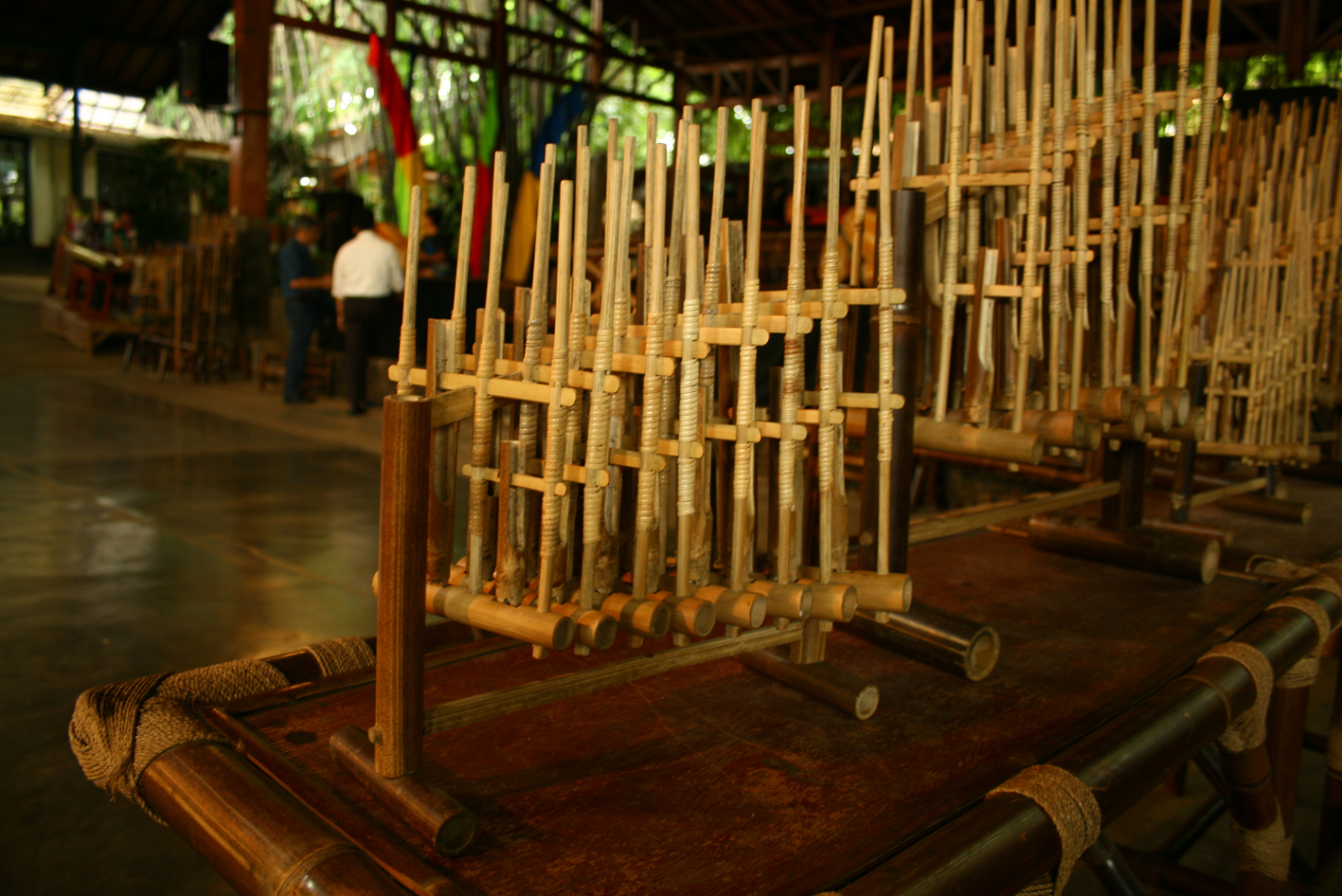 Angklung.